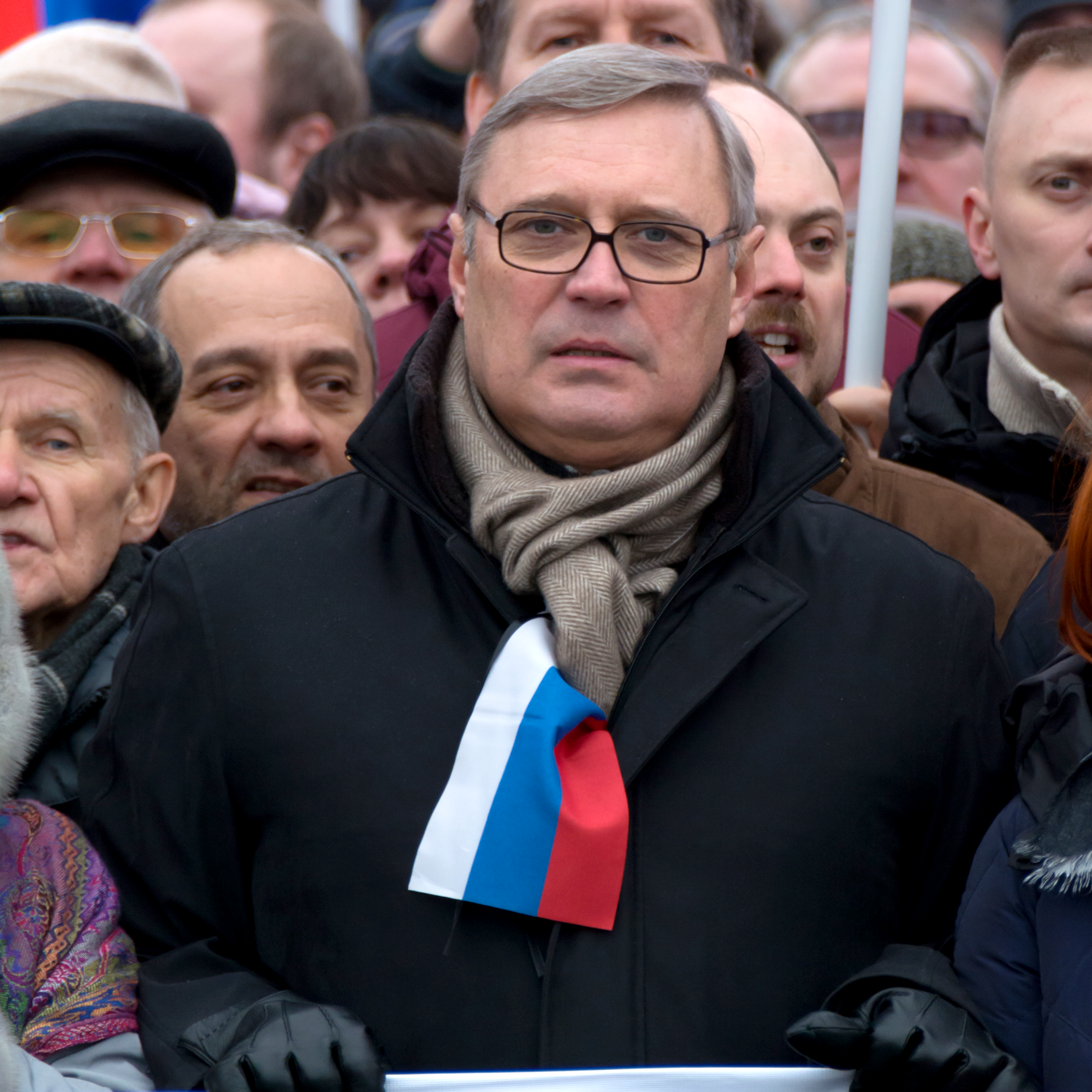 Mikhail Kasyanov during the March in memory of Boris Nemtsov in Moscow (2015-03-01)